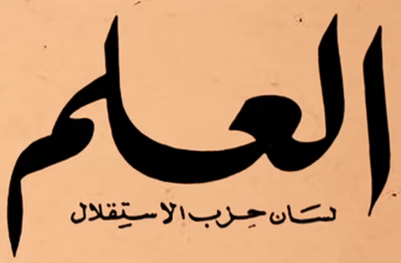 Logo of al-Alam, a Moroccan newspaper belonging to the Istiqlal Party.